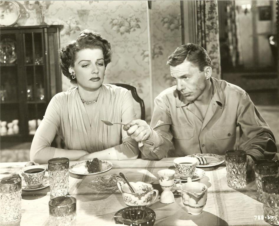 Promotion photo from Stella (1950) featuring Ann Sheridan and David Wayne